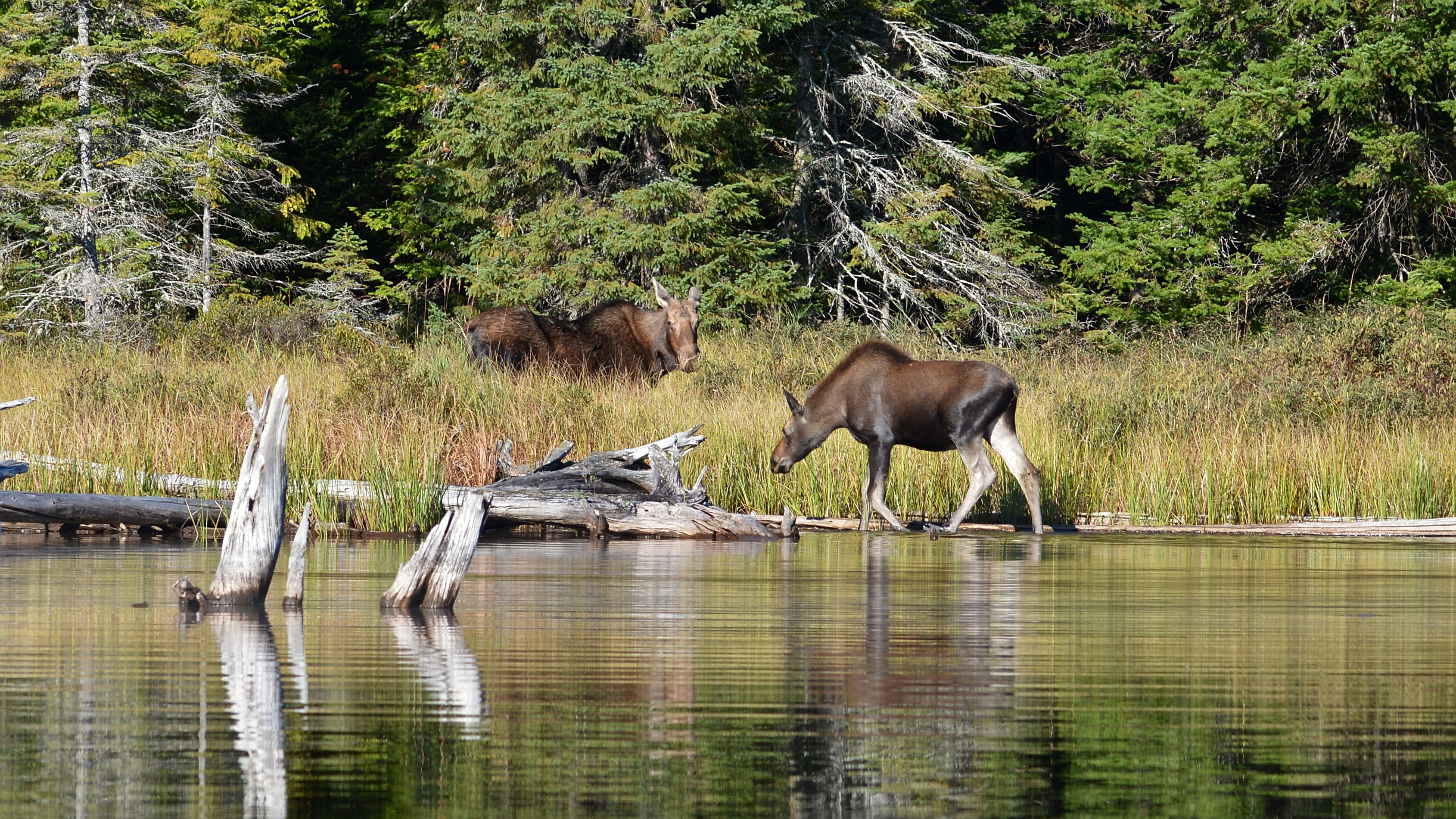 Female and juvenile Moose (Alces alces) in Algonquin Provincial Park, Ontario, Canada.